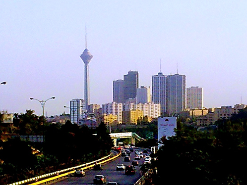 A view of Milad Tower from Chamran Expressway, (looking south), Tehran, Iran